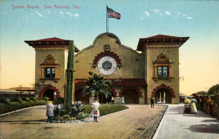 The Sunset Depot, the first San Antonio Station — in San Antonio, Texas. The historic Mission Revival Style Southern Pacific Railroad station, built in 1902, underwent an extensive restoration and now serves as an entertainment complex.